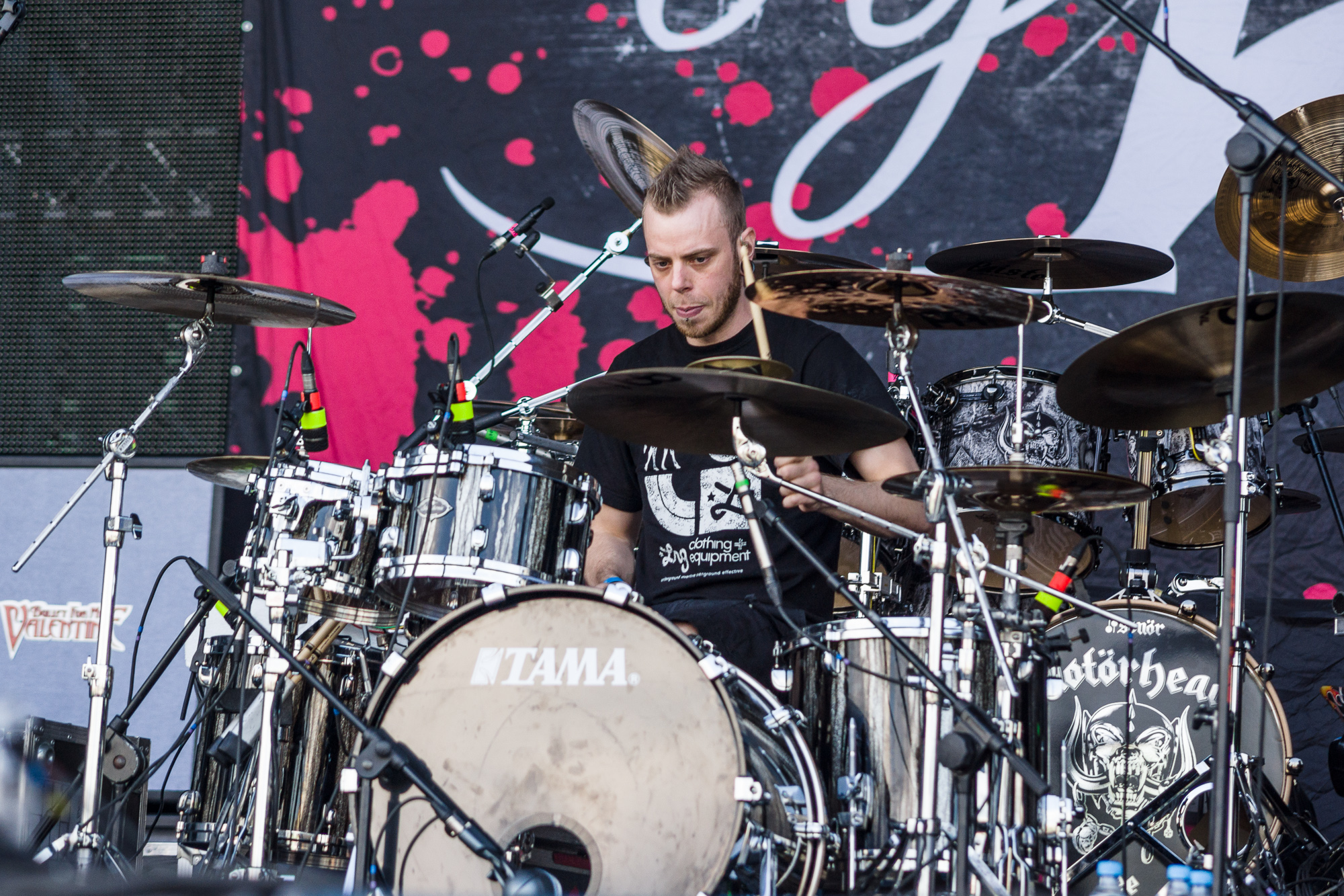 Alexander Svenningson, drummer of Dead by April band. Ursynalia 2013 Warsaw Student Festival, Poland.